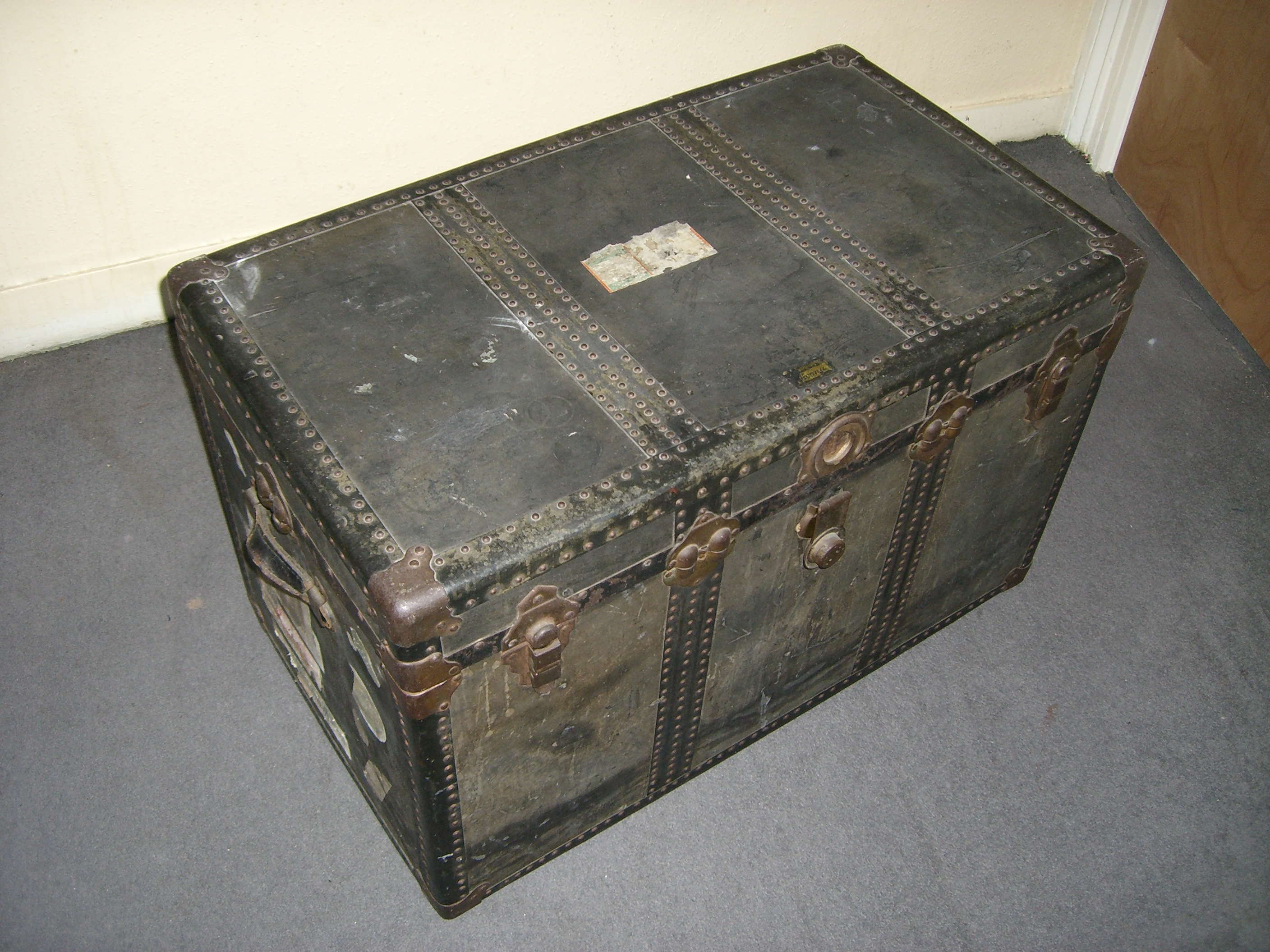 A tatty trunk I found in my flatshare. Photo taken 1 April 2006 by User:Edward with a Casio EX-S600.